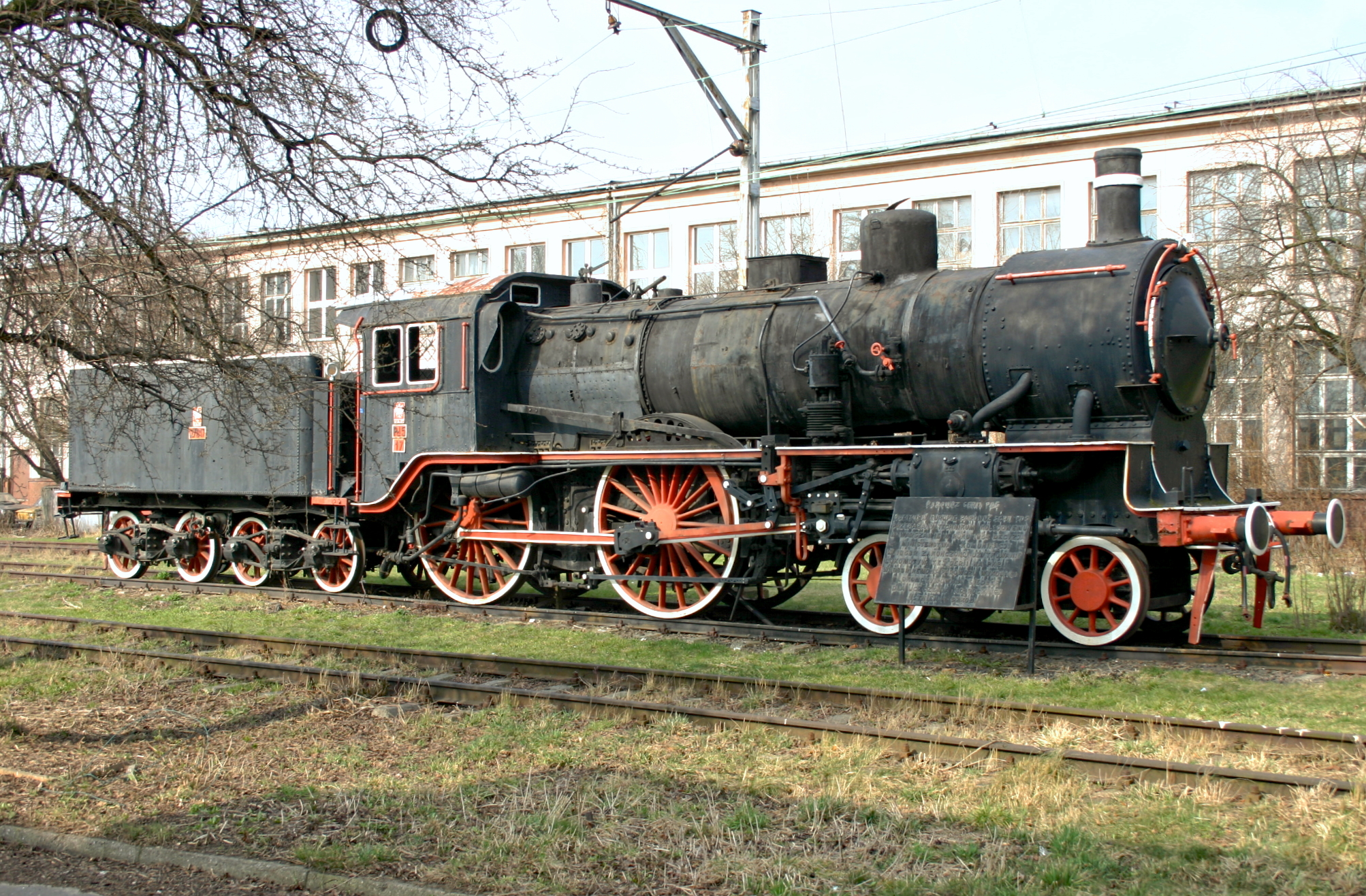 Steam locomotive Pd5-17, as a monument in Technikum Kolejowe in Warsaw 06.04.05 (former Prussian KPEV S6 Altona 656, DRG 13 1247, built by Linke Hofmann Werke, 1912. This locomotive in fact never served in Poland, being an educational exhibit, and numer 17 is fictious)